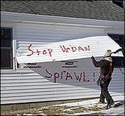 "Stop Urban Sprawl"; Earth Liberation Front targeting multi-million houses